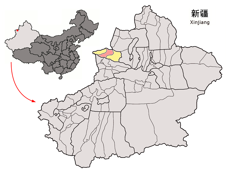 Location of Bole City (pink) and Börtala Prefecture (yellow) within Xinjiang autonomous region of China Map drawn in september 2007 using various sources, mainly : Xinjiang Uygur autonomous region administrative regions GIS data: 1:1M, County level, 1990 Xinjiang Counties map from